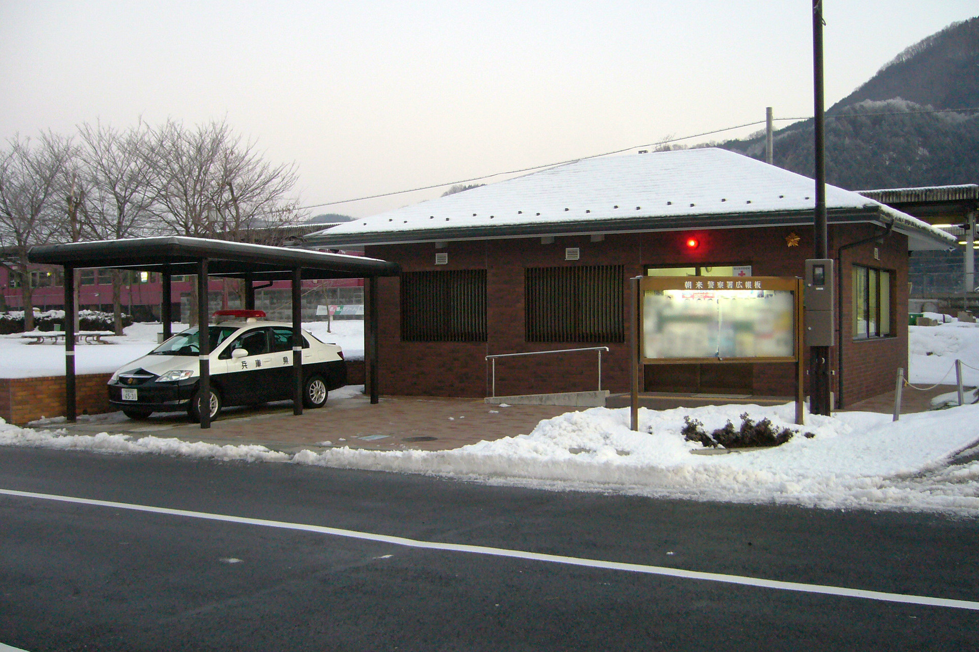 Koban, photo taken in front of Wadayama Station (Hyogo Prefecture, Asago City), photographer 663highland, 2006-02-10